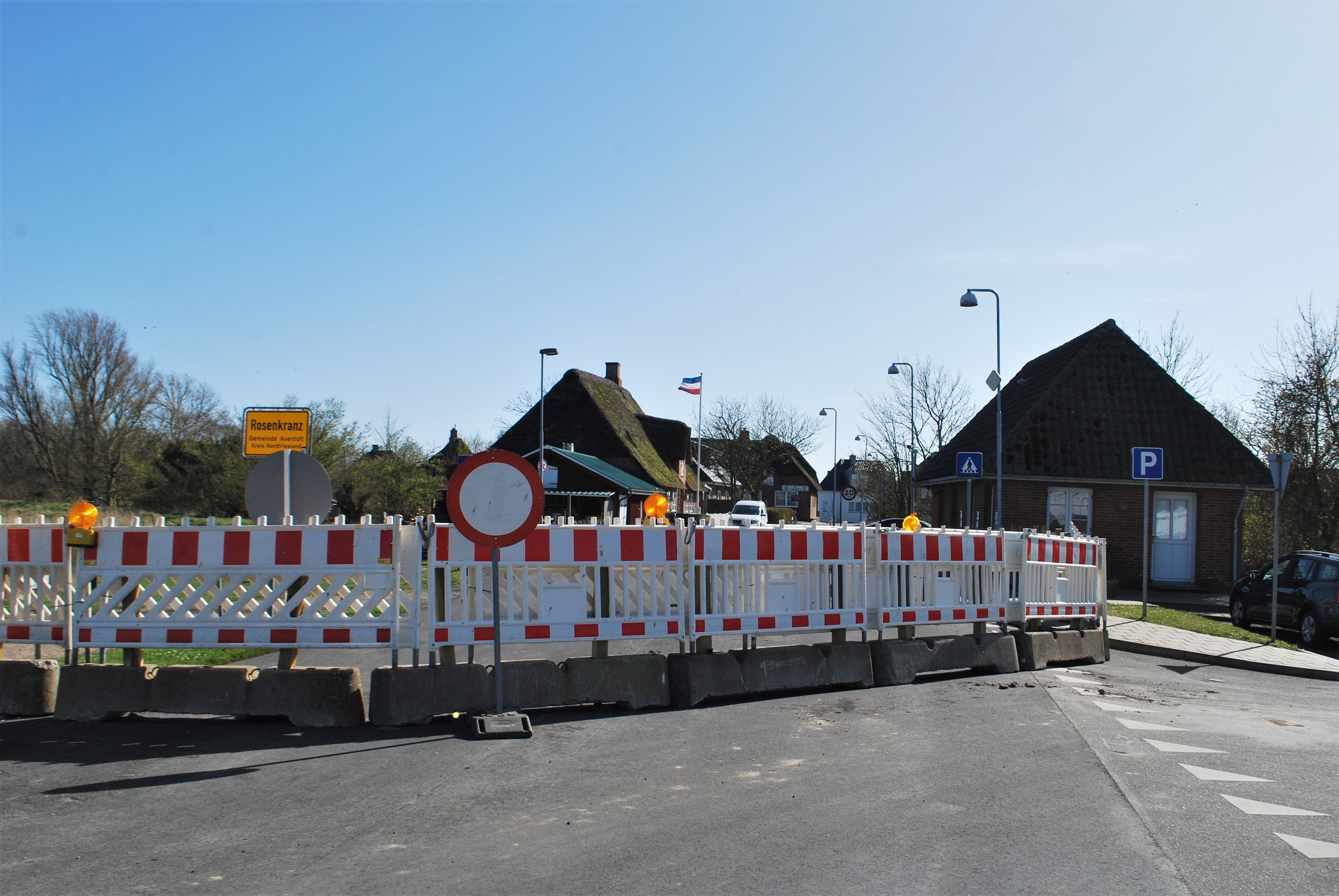 Coronavirus pandemic- Rudbøl, Denmark - Rosenkranz, GermanyDansk: På grund af Coronavirus pandemien er bl.a. grænsen ved Rudbøl spærret